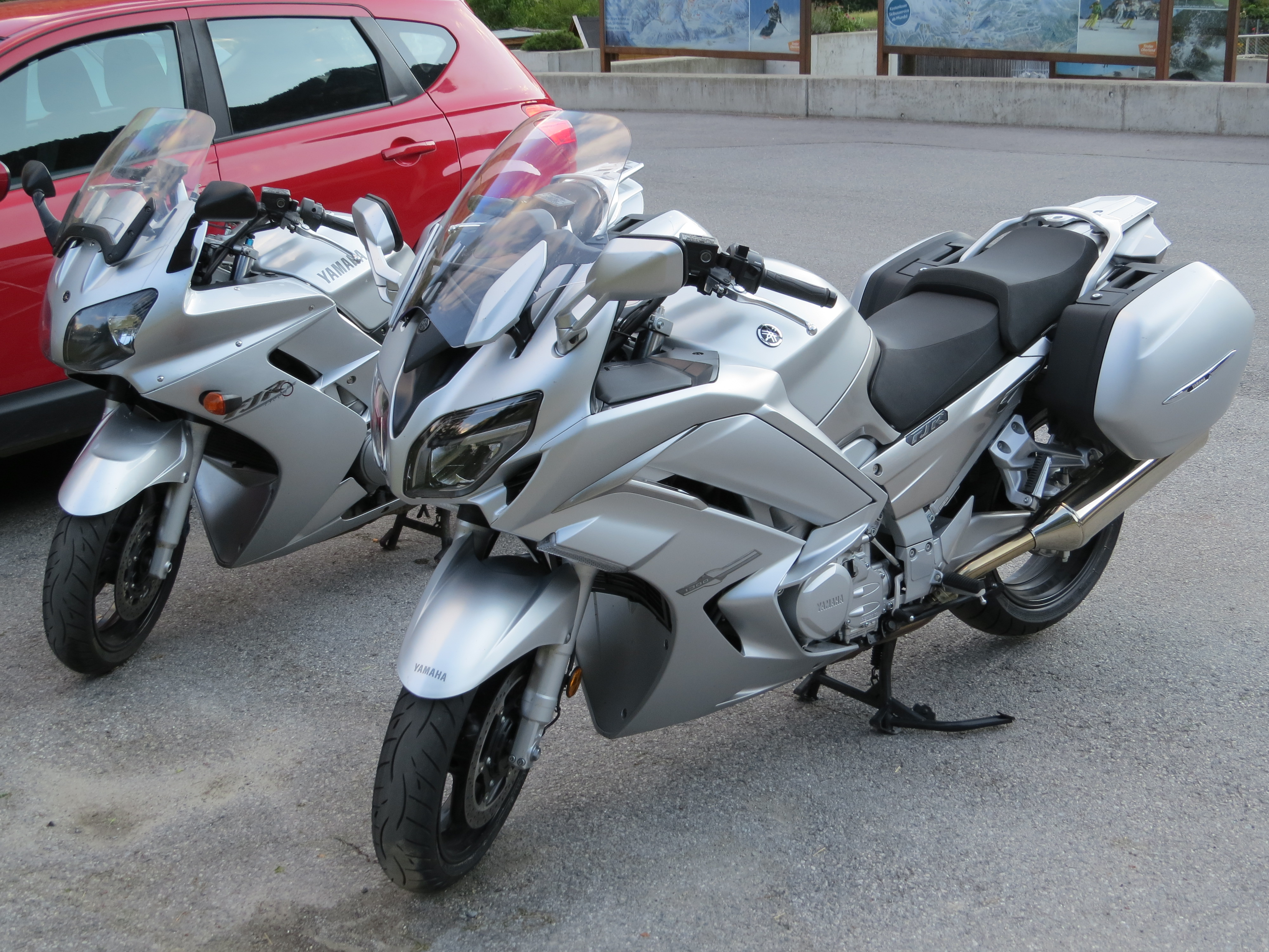 Two Yamaha FJR 1300 in Pfunds, Tyrol, Austria